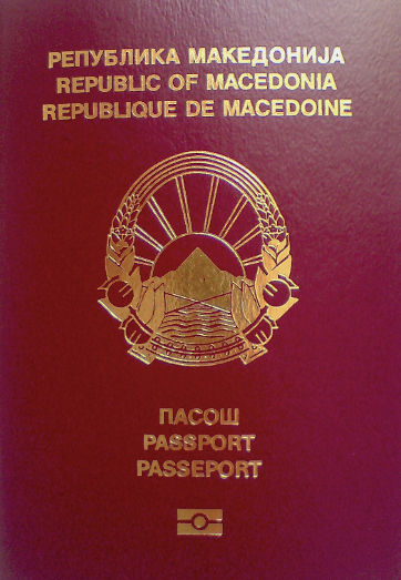 Macedonian passport